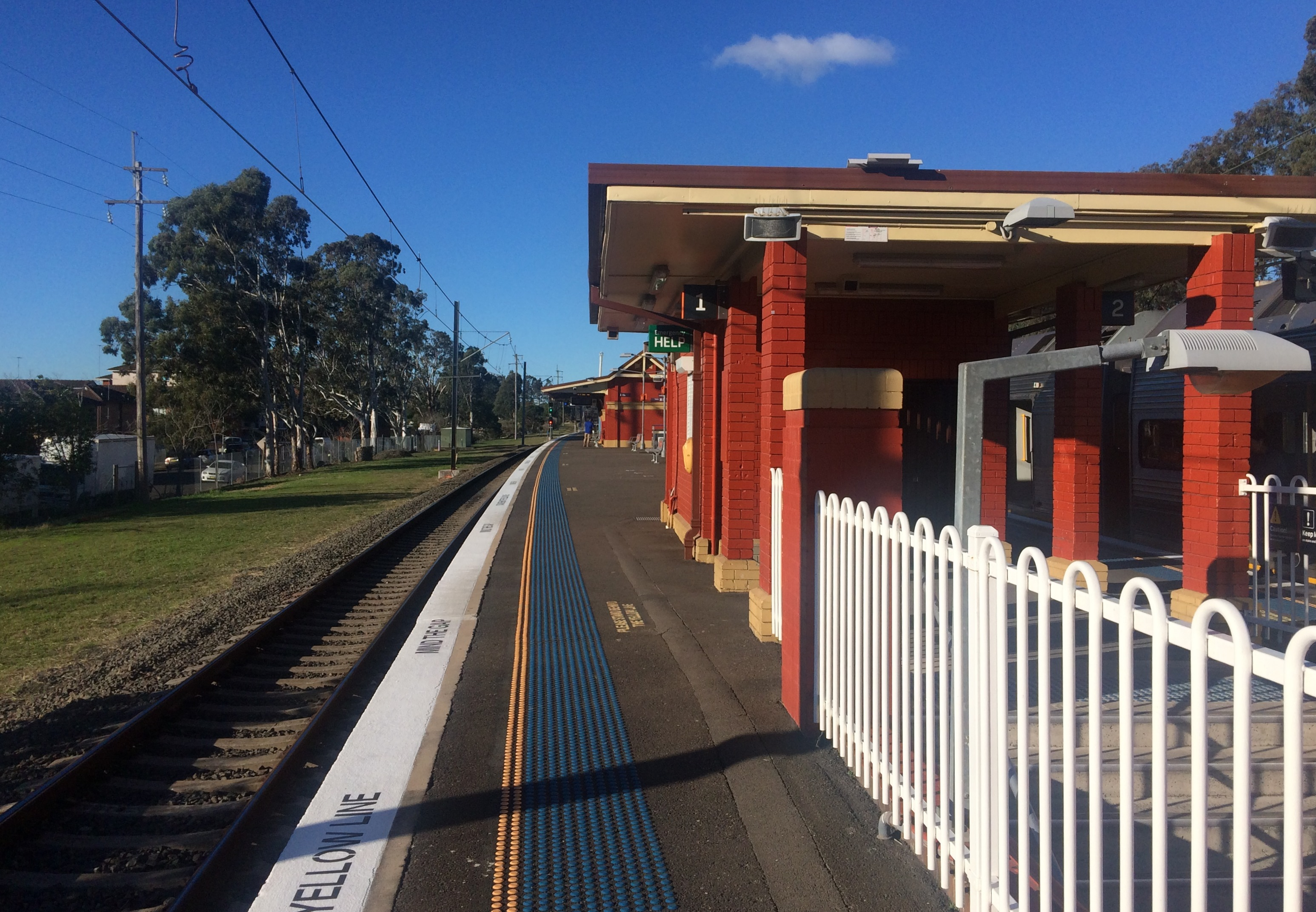 The track and platform at Carramar railway station.